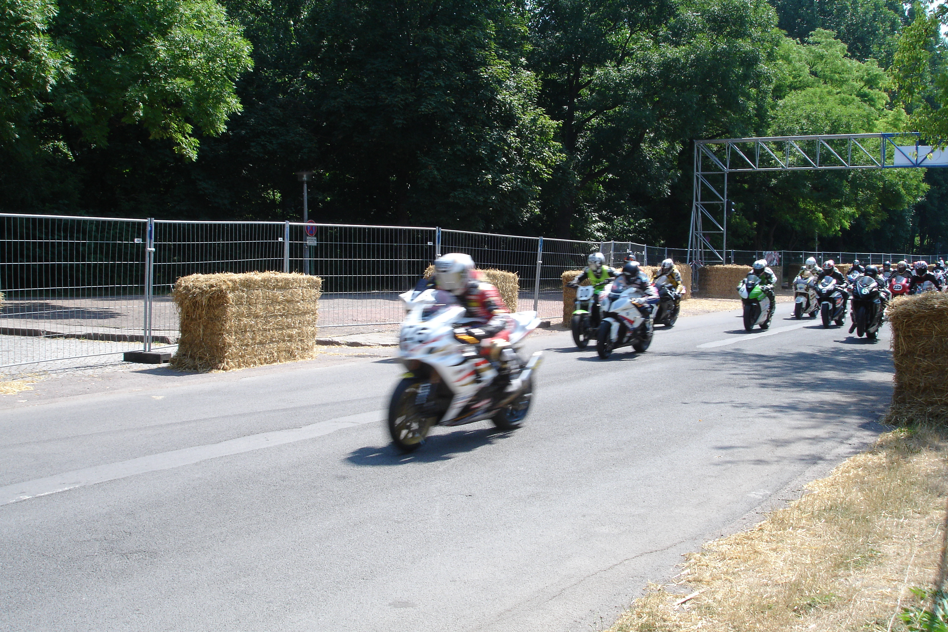 Start of the Superbike Open on Halle-Saale-Schleife in Halle(Saale) 2010.